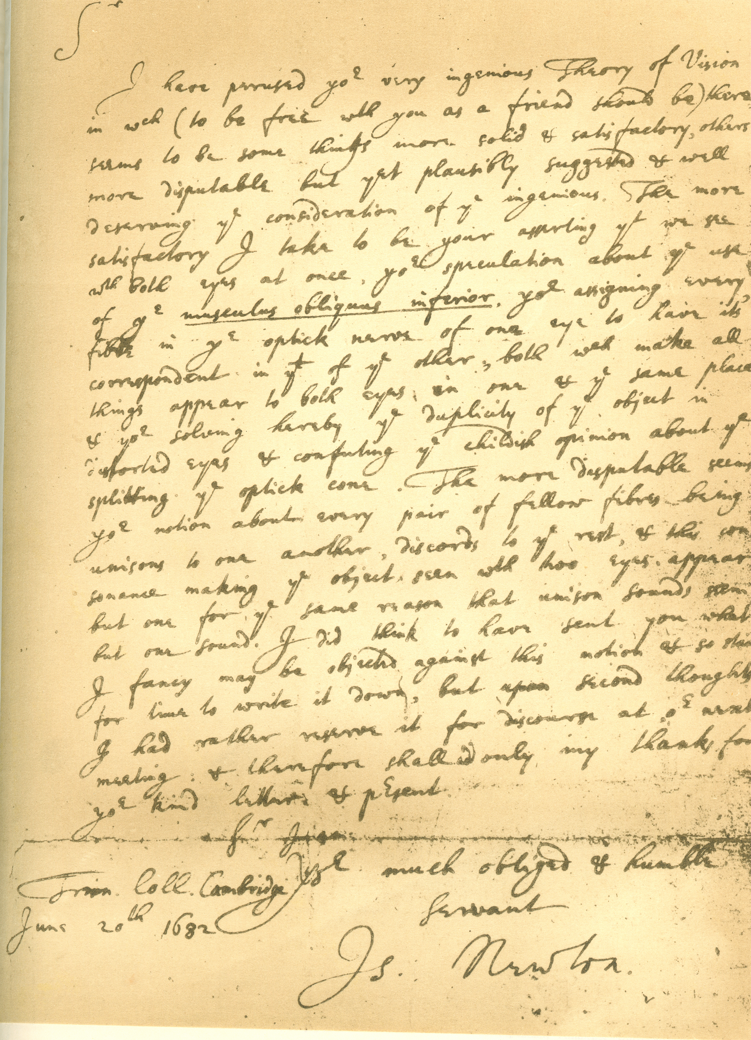 Isaac Newton's letter to Dr. William Briggs, June 20th 1682, commenting on Briggs' "A New Theory of Vision". British Museum Add. Ms. 4327 f. 100. (Published in facsimile in the (French) Dictionnaire encyclopédique Quillet, Paris, 1953).